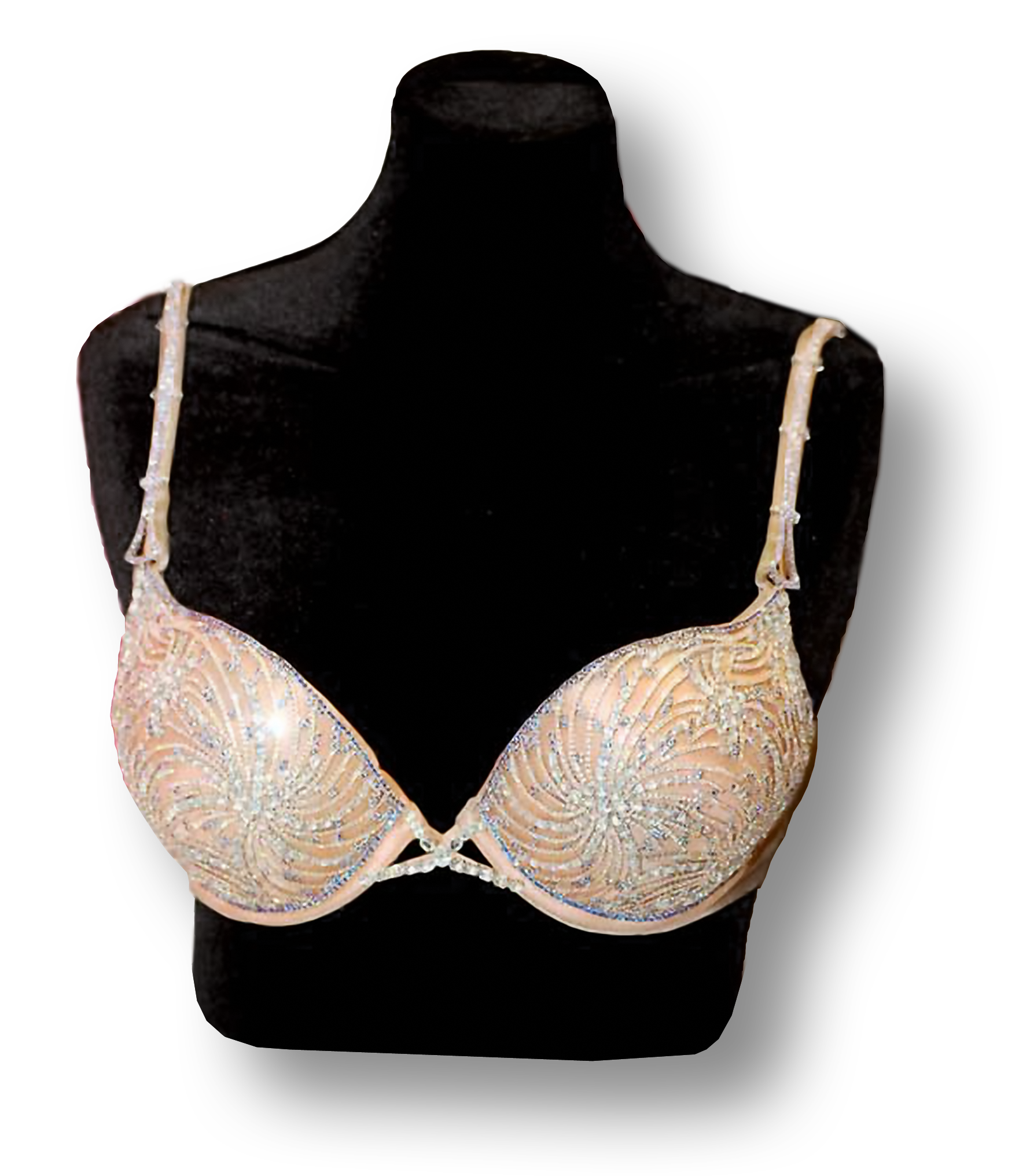 Victoria's Secret supermodel Adriana Lima showcased at Woodfield Mall, Schaumburg, IL, USA, on December 10, 2010, the $2 million Fantasy Bra designed by celebrity jeweler Damiani. Photo by Adam Bielawski